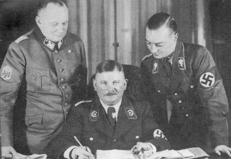 Ernst Roehm (centre) shortly after his appointment to the office of Minister without Portfolio in the Hitler Government in December 1933. On the right: SA-Gruppenführer Karl Ernst, on the left Franz von Stephani (in tunic of Stahlhelm).